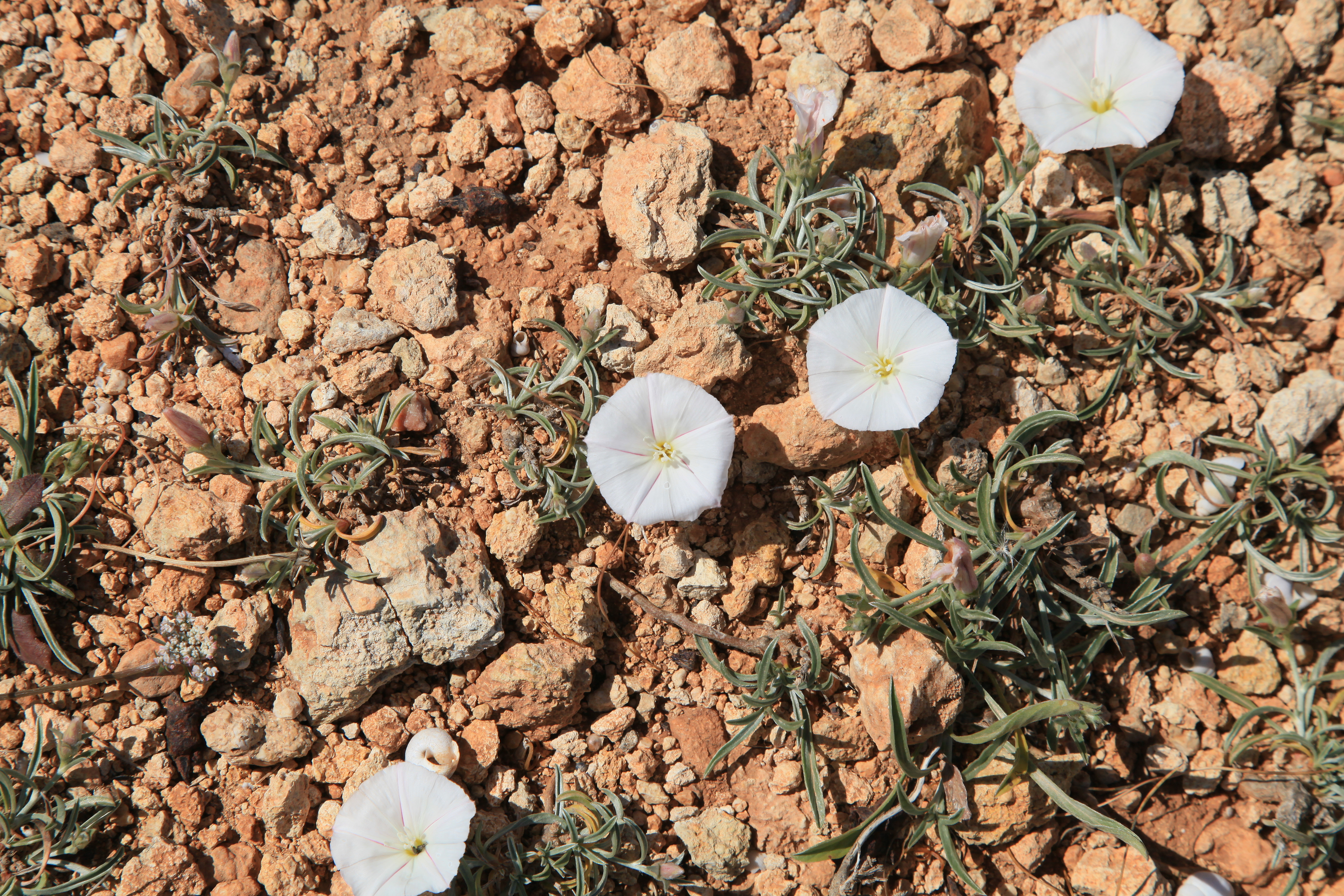 Convolvulus lineatus growing at Triq il-Mellieħa within the "Rdum mic-Ċirkewwa sa Benghisa" nature reserve in Mellieħa, Malta